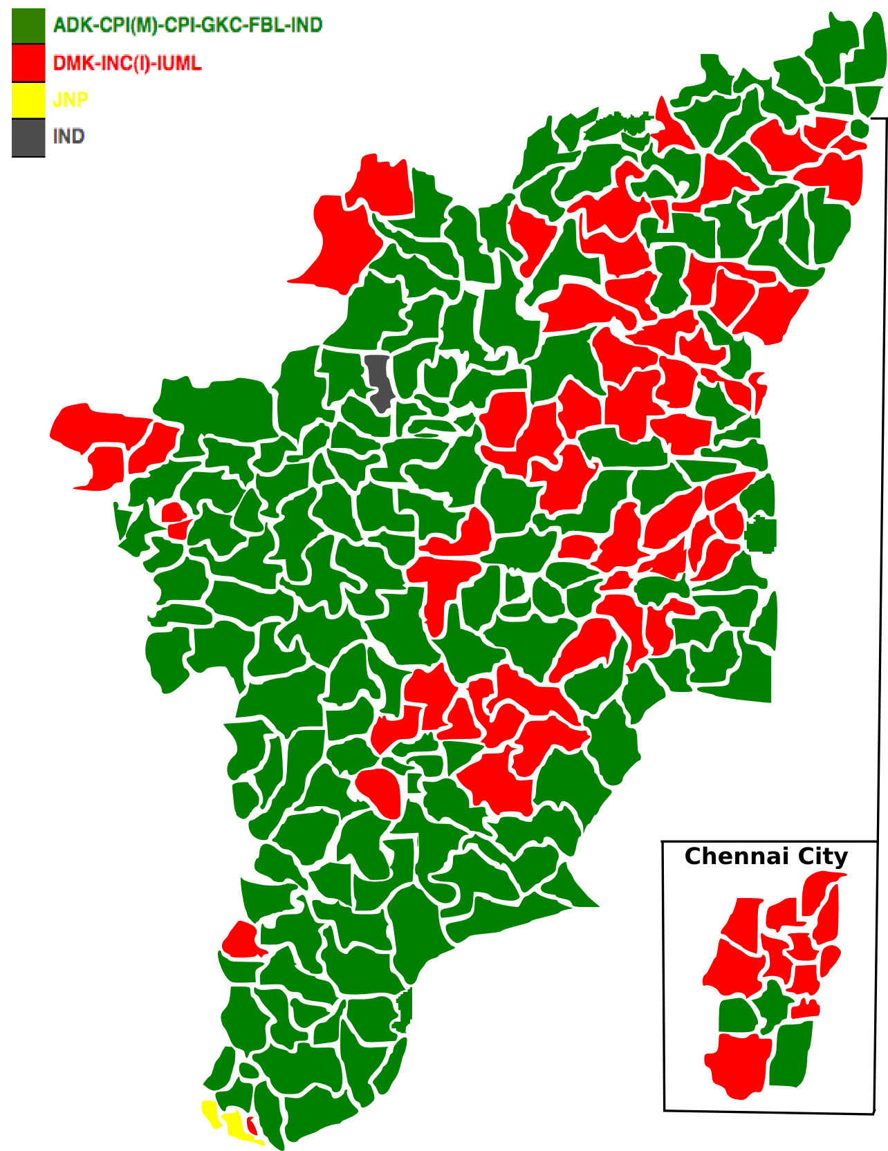 made election map using borders from ECI website using Inkscape.